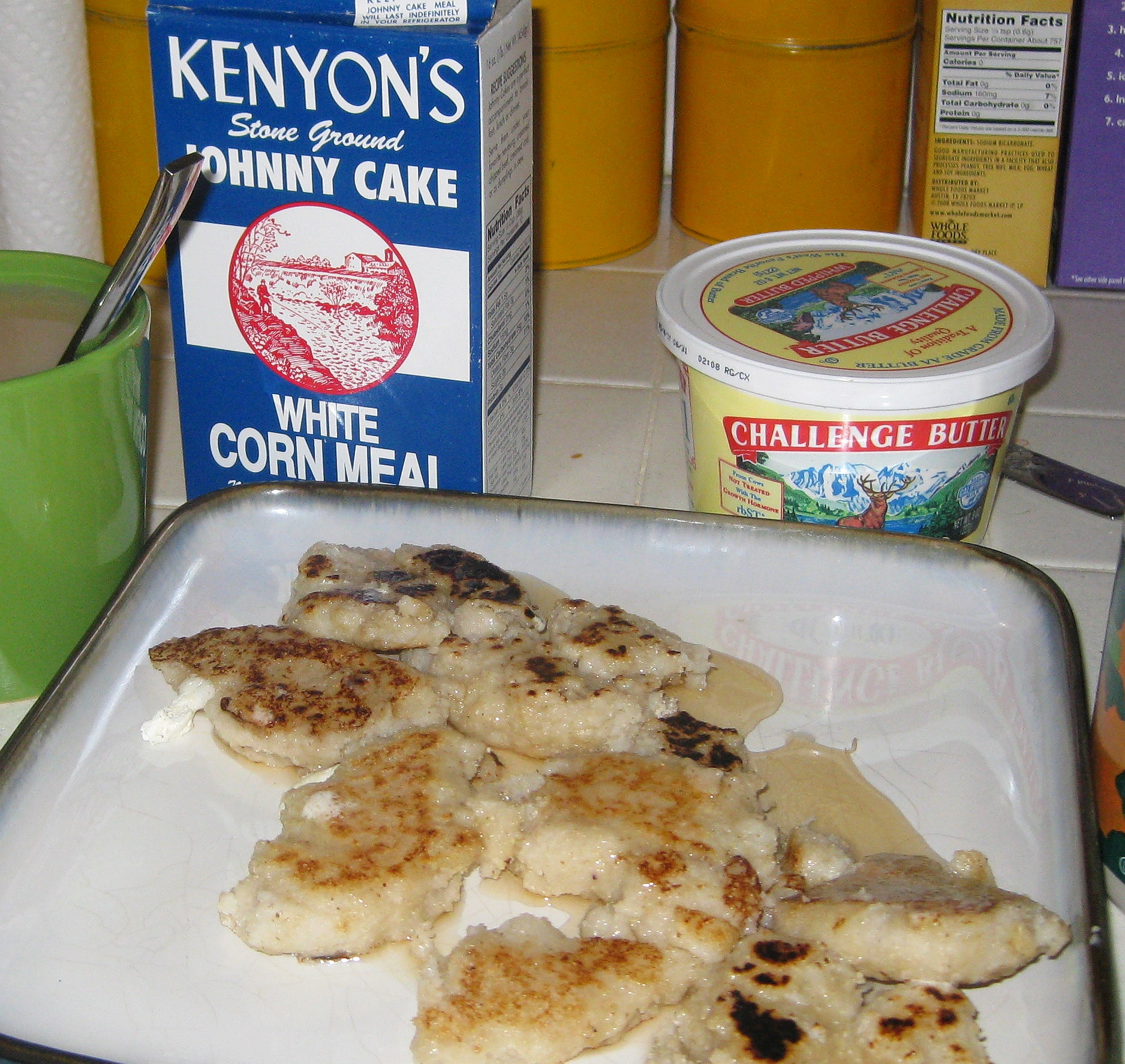 Jonnycakes aka johnnycake, johnny cake, journey cake, and johnny bread, a cornmeal flatbread. This photo was taken on February 26, 2011 in Noe Valley, San Francisco, CA, US, using a Canon PowerShot SD1100 IS.